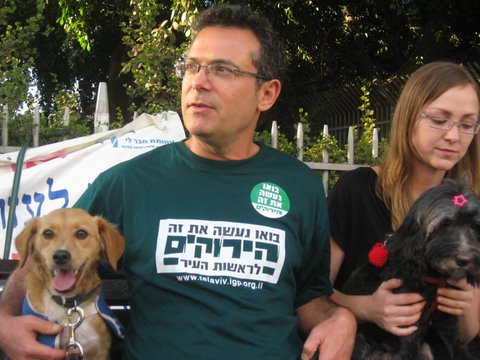 dr rafi kishon